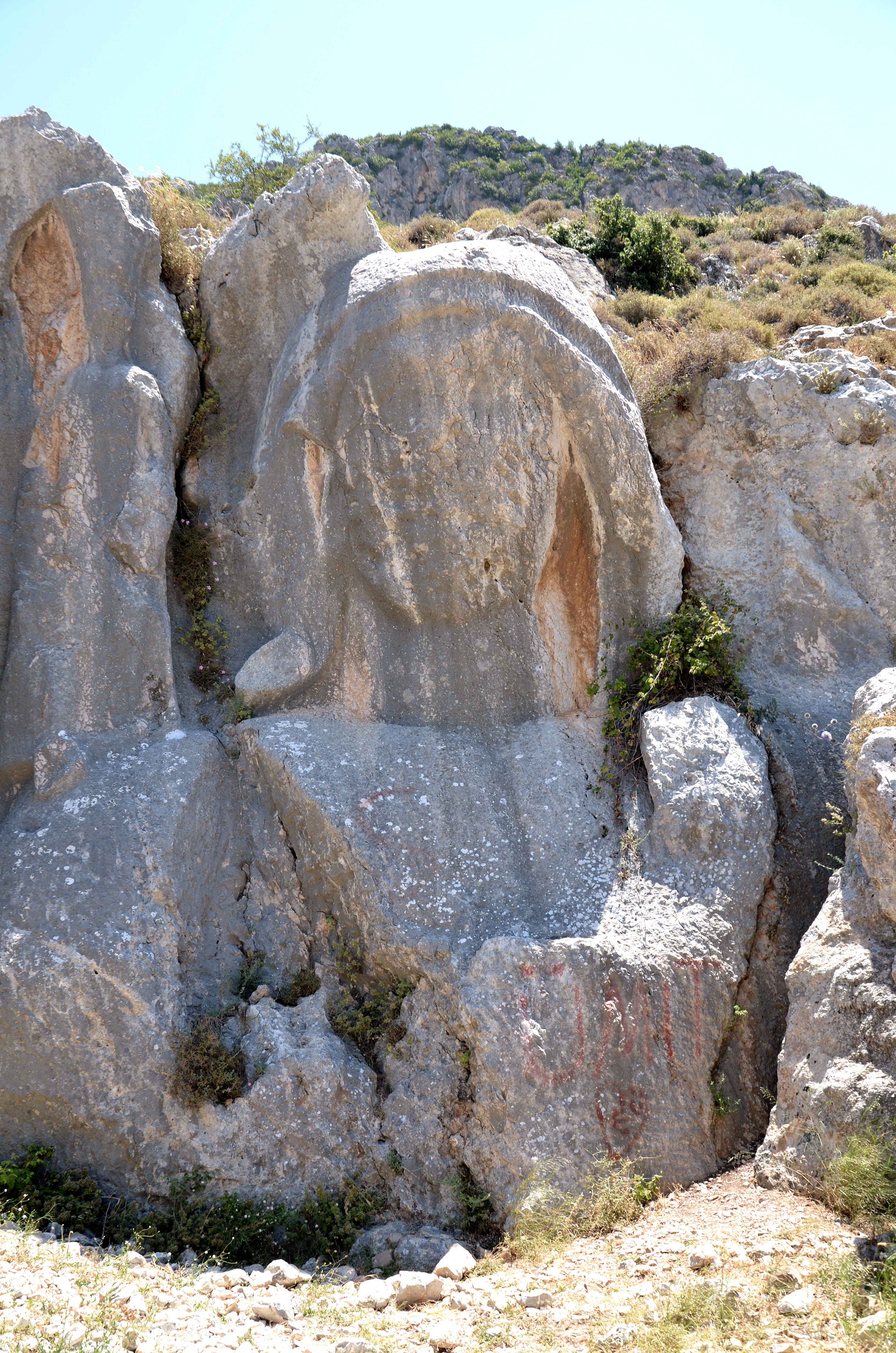 The so-called Charonion, a carved stone bust on the mountainside above Antioch, it dates from the time of King Antiochus in the Seleucid era (3rd century BC), Antioch on the Orontes, Antakya, Turkey